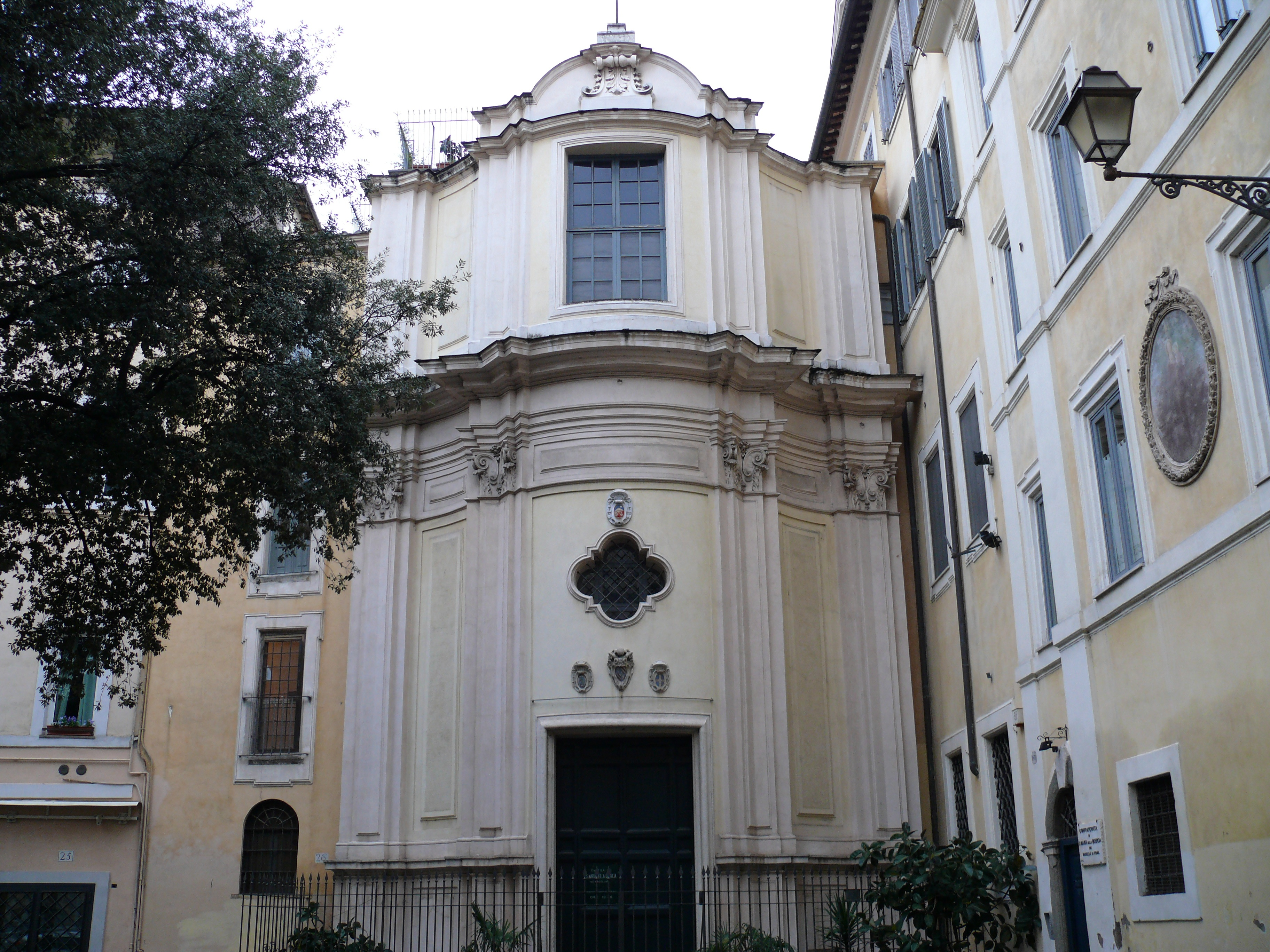 Façade of Santa Maria della Quercia near the Palazzo Spada (1727–31). Architect: Filippo Raguzzini